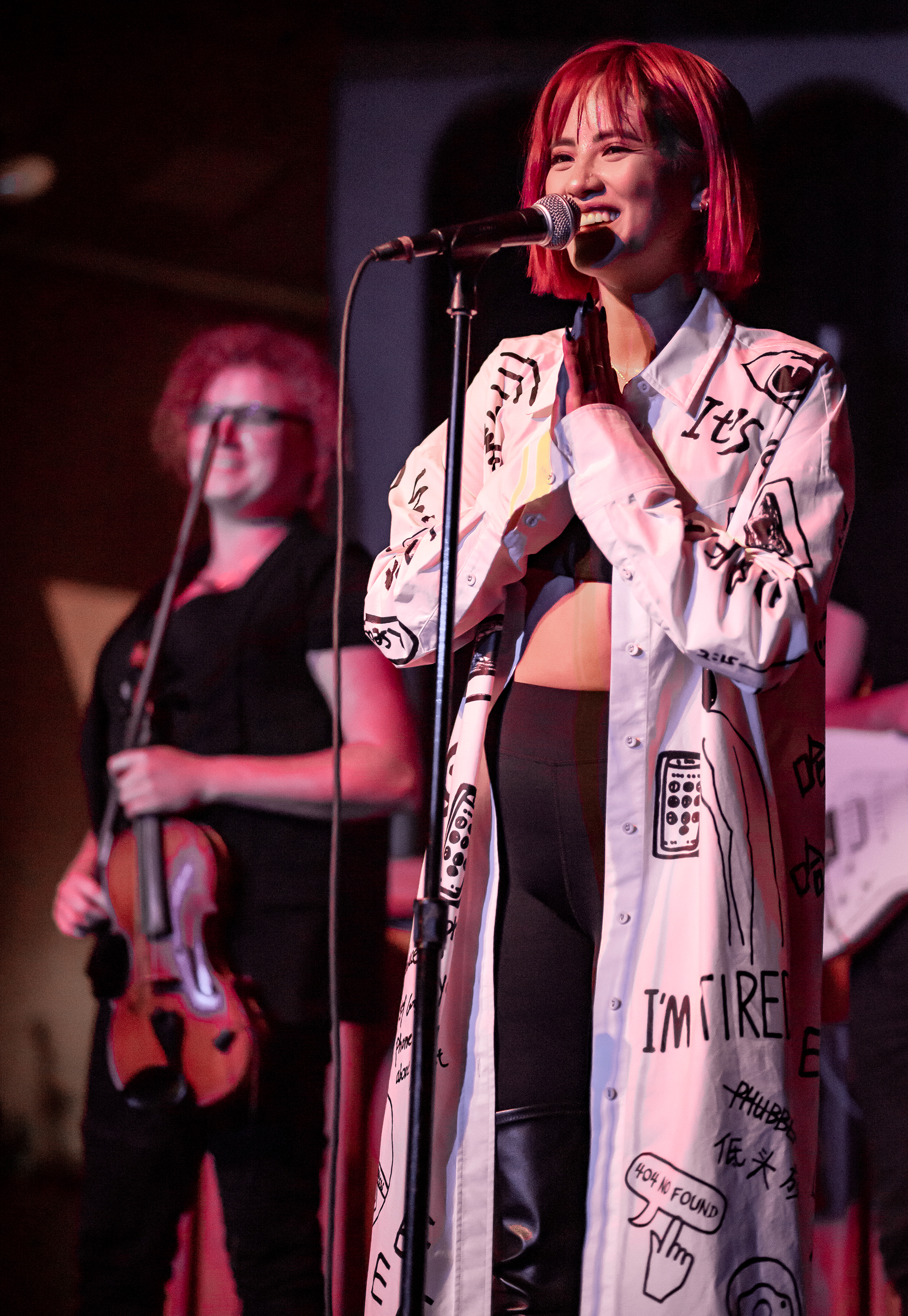 Emmalyn Estrada performing live at The Peppermint Club in Beverly Hills, Los Angeles, California, on Thursday, September 6, 2018.